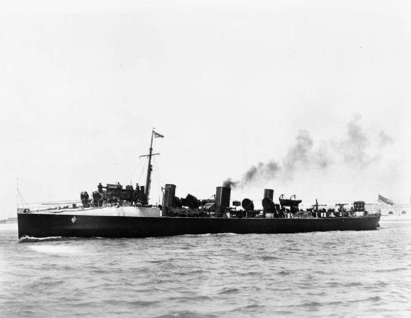 Photograph of British torpedo boat destroyer HMS Chamois.